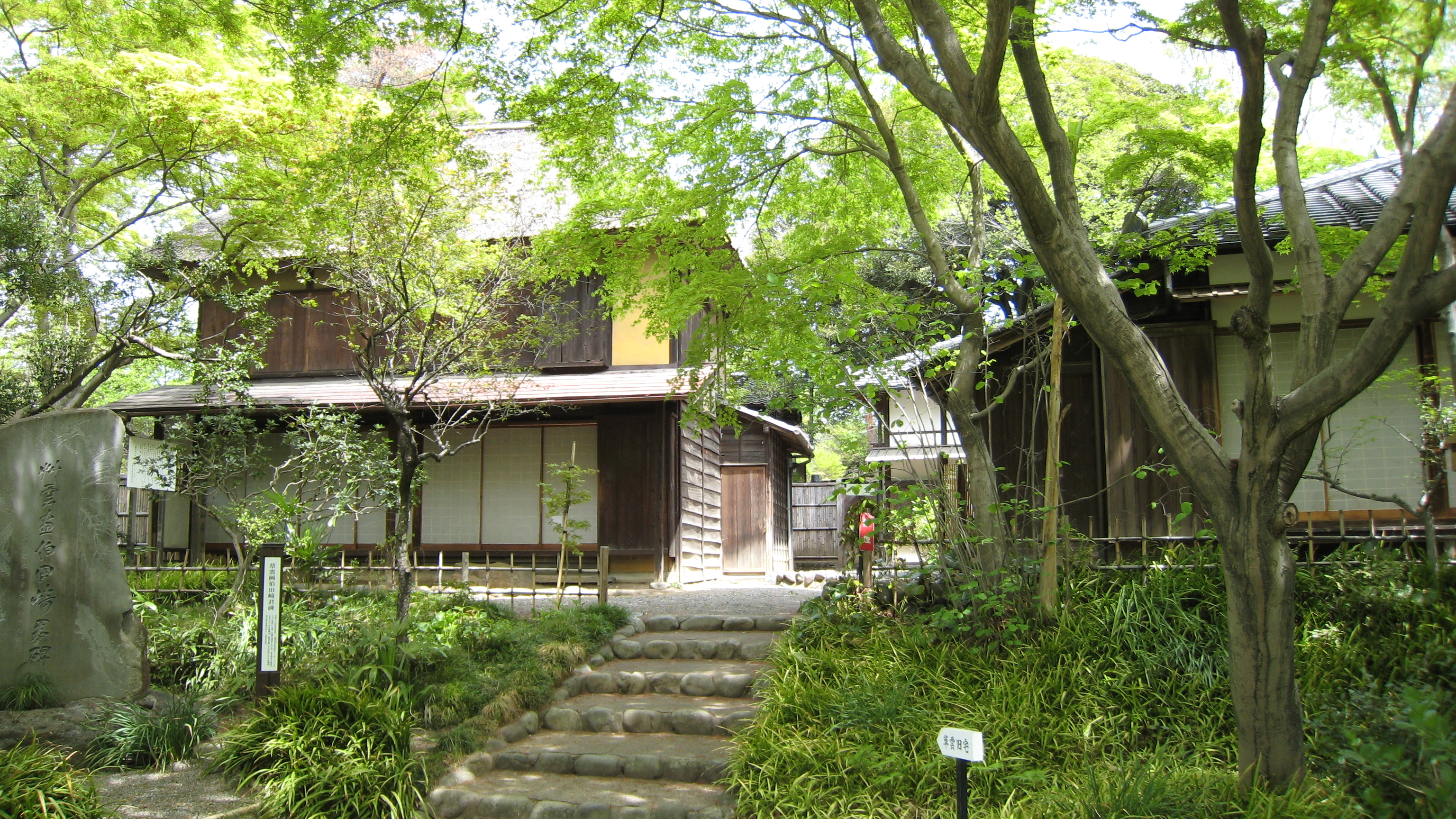 House of the painter Tazaki Soun in the Soun Museum of Art, Ashikaga City, Tochigi Prefecture, Japan